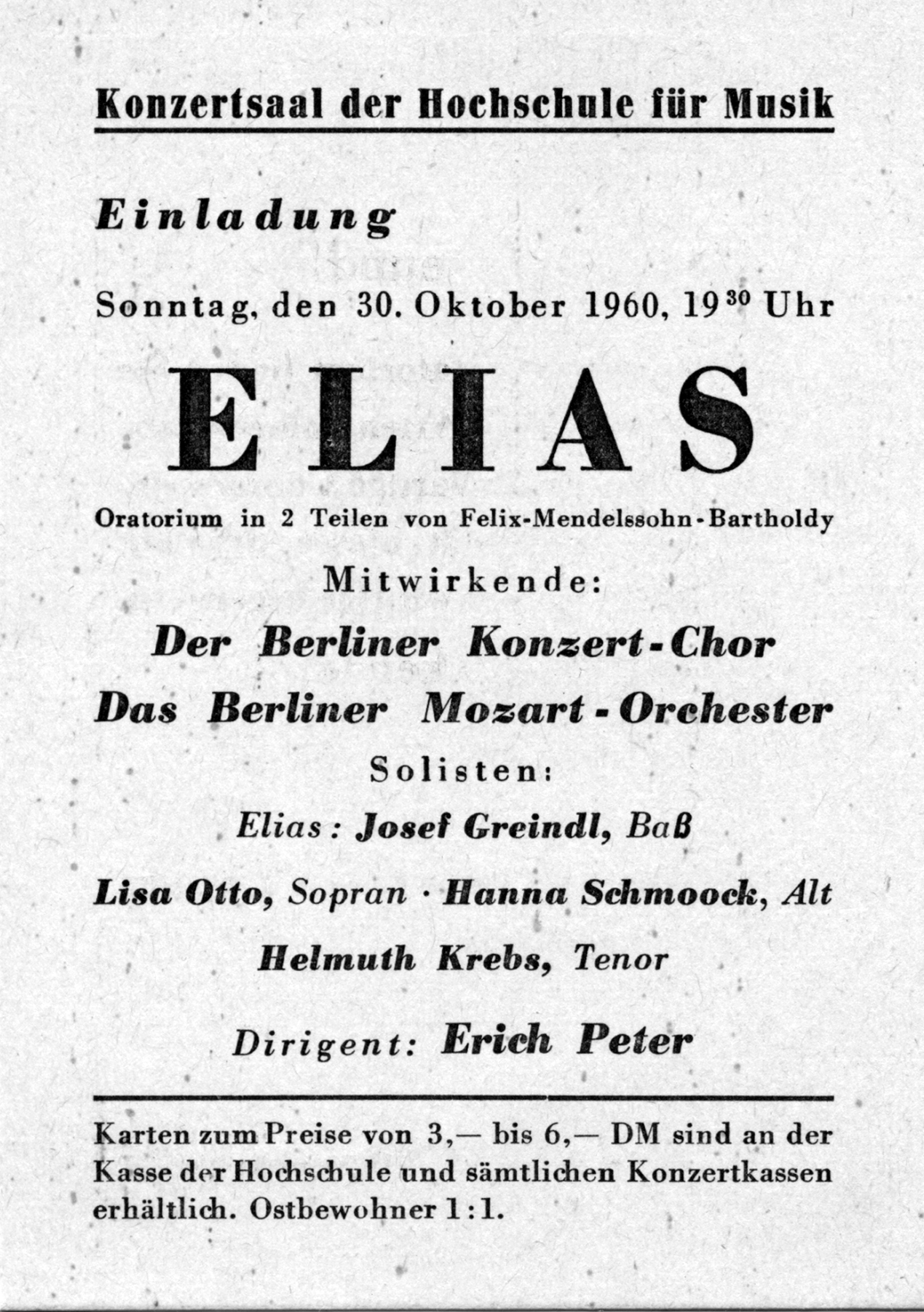 Erich Peter dirigiert den "Elias" von Mendelssohn-Bartholdy (1960) in Berlin